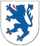 Coat of arms of Grafschaft Veldenz till 1444